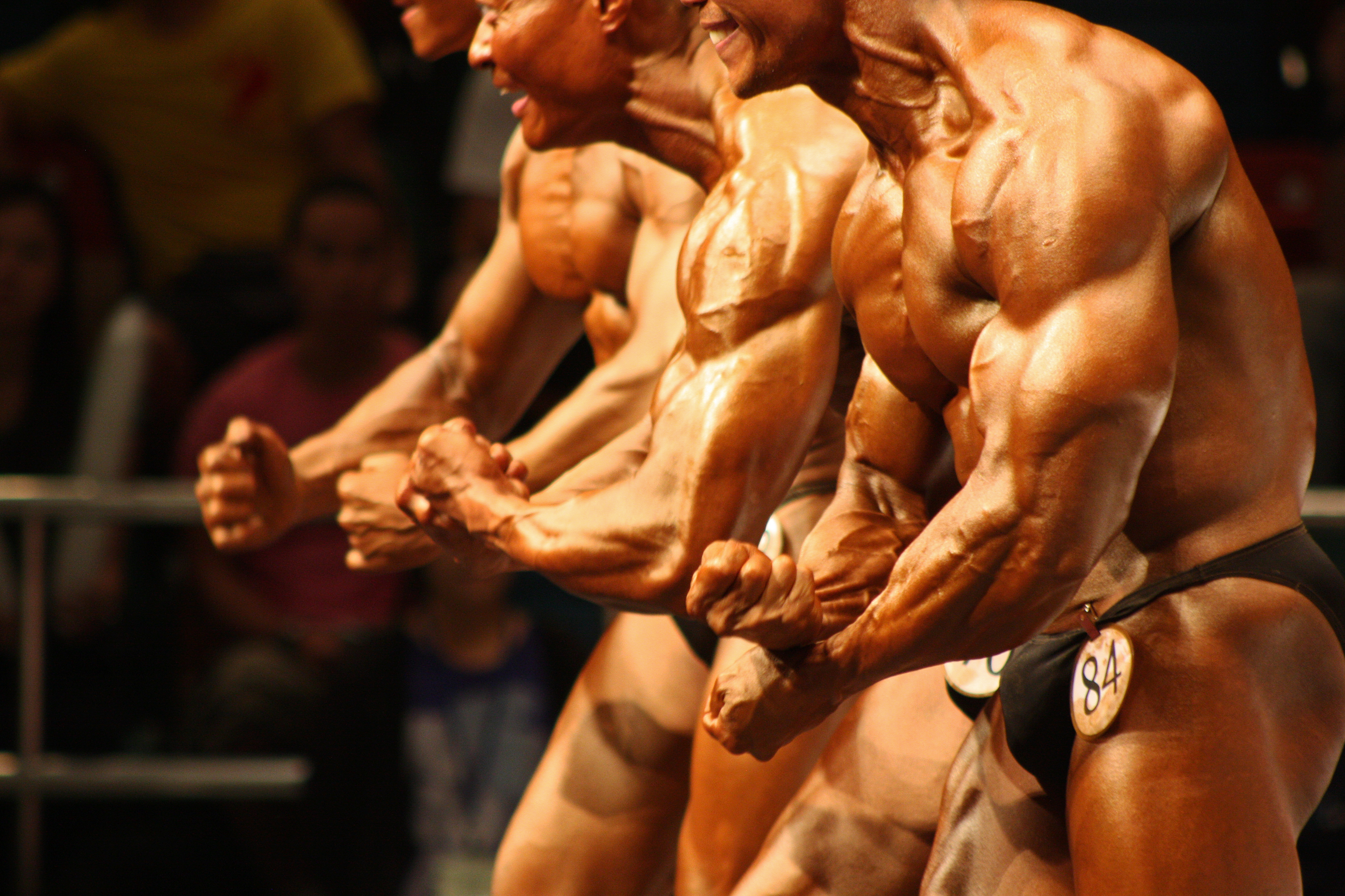 2012 Hong Kong Bodybuilding Championships & 3rd South China Invitational Championships 2012 全港健美錦標賽 暨 華南地區健美邀請賽 I have a ton more pictures from the HK Bodybuilding Championships, so if you competed, get in touch with me as I may have taken your picture.